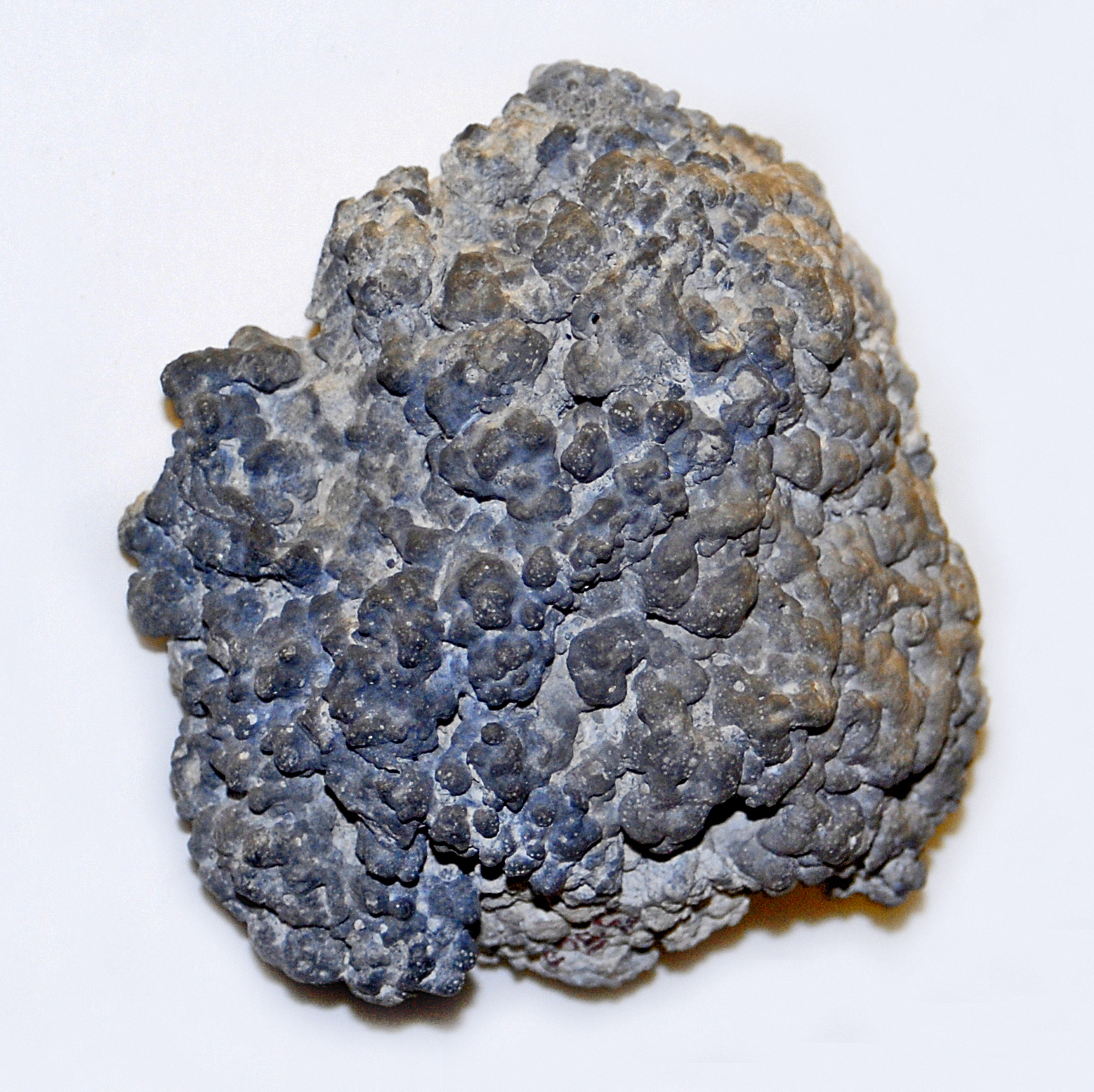 Lithophyllum sp., on display at the Museo Civico di Storia Naturale di Milano